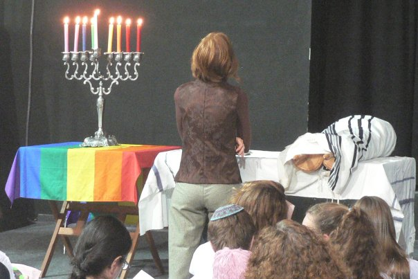 Pride Minyan. An egalitarian orthodox LGBT project of the religious LGBT community in Israel. Supported by Havruta, Bat-Kol and Tel-Aviv municipality. The picture was taken at Kabalat Shabat on the second Shabat of the Jewish holiday of Hanukkah.